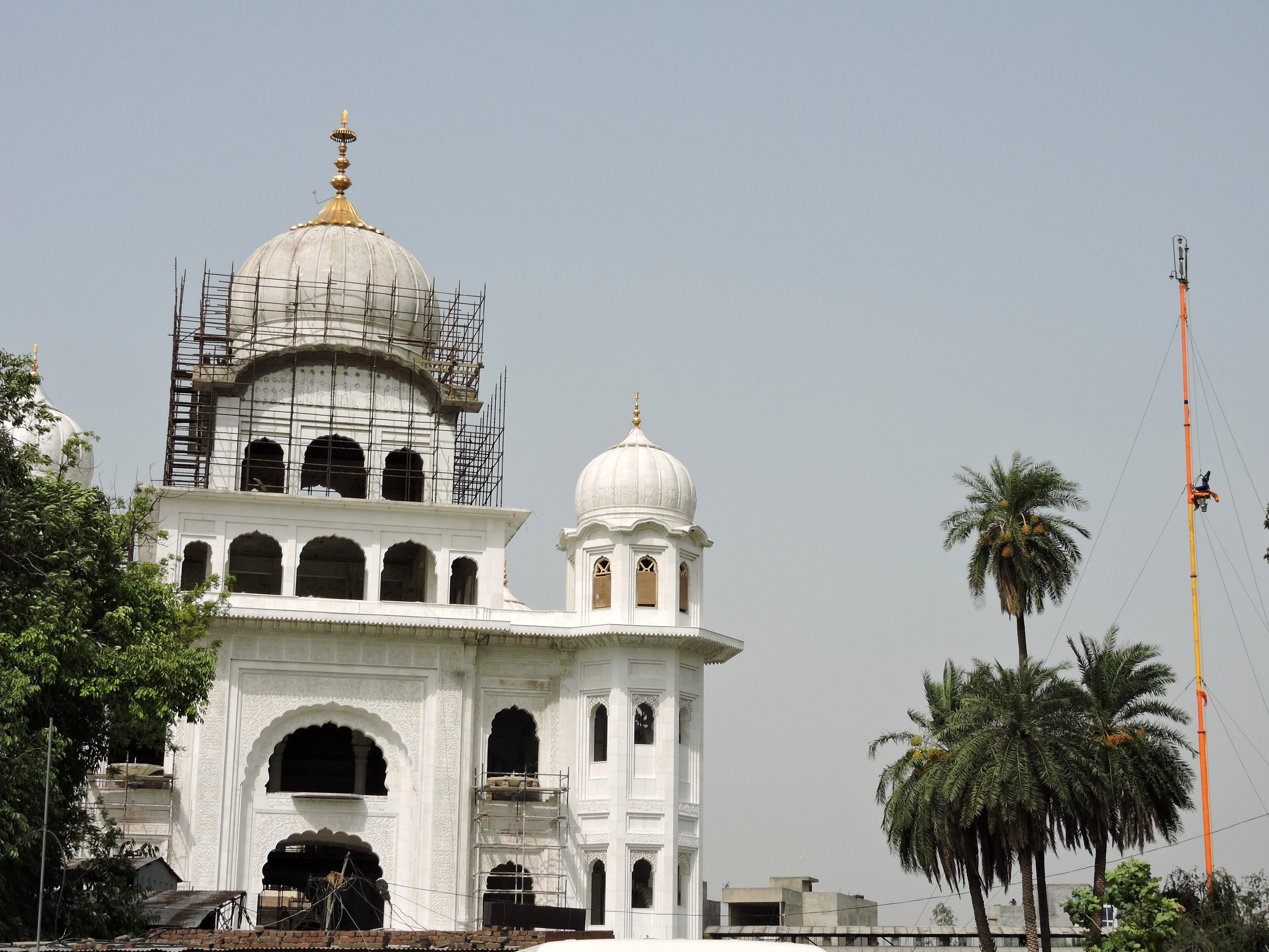 Gurdwara Singh Shaheedan ,Sohana , district Mohali , Punjab ,India